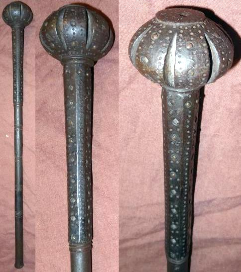 Indo-Persian bozdogan / buzdygan mace (Ottoman or Persian), forged entirely of solid iron. The head is divided into 8 flanges with the remnants of inlaid brass dots, one third of the solid shaft starting from below the head is octagonal, the remaining two thirds of the shaft is round, 18 inches long.